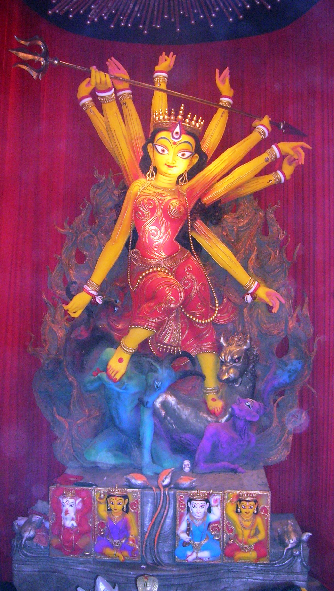 Durga idol at Hatibagan Nalin Sarkar Street Sarbojanin, North Kolkata, 2010